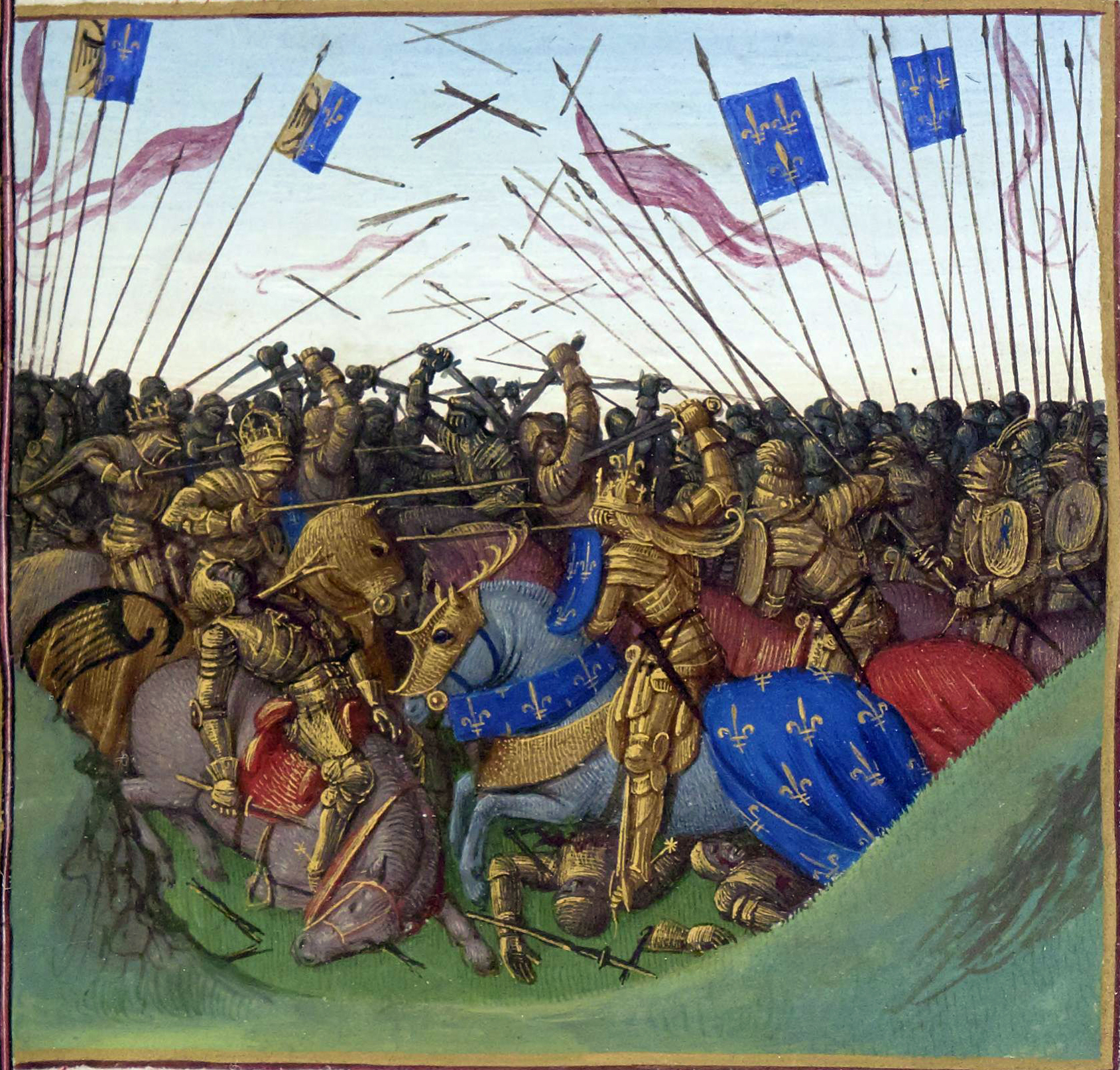 Battle of Fontenay-en-Puisaye